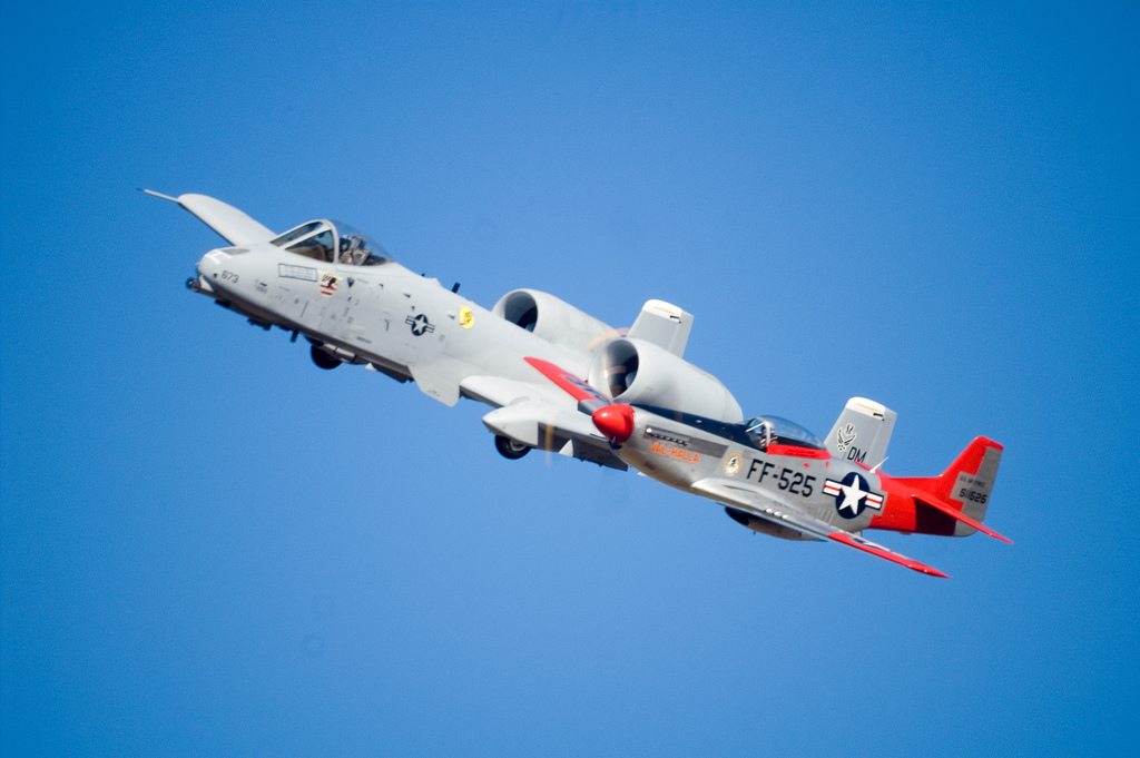 USAF Heritage Flight at the Oregon International Airshow in Hillsboro, Oregon. July 2006